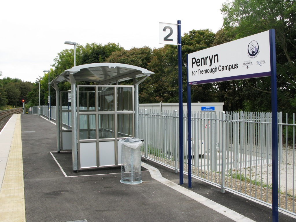 The new Platform 2 at Penryn station, Cornwall. This was built in 2009 to allow a second track so that trains on the Maritime Line could pass here.